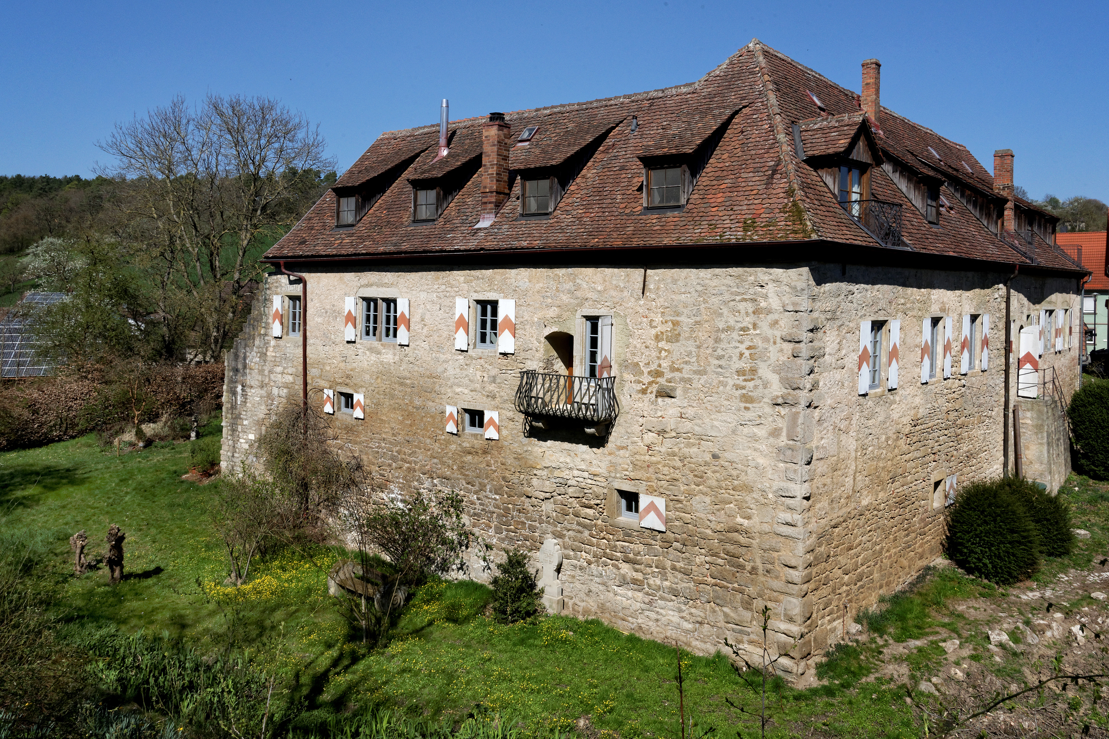 The Geyer-Castle in Creglingen Reinsbronn.